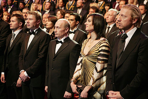 MARIINSKY THEATRE, ST PETERSBURG. At the awards ceremony of the Laureus World Sports Academy.